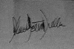 Austrian State Treaty, signatures of the five minsters an cancellor, exhibition 2005 on the Schallaburg John Foster Dulles, US Foreign Ministry